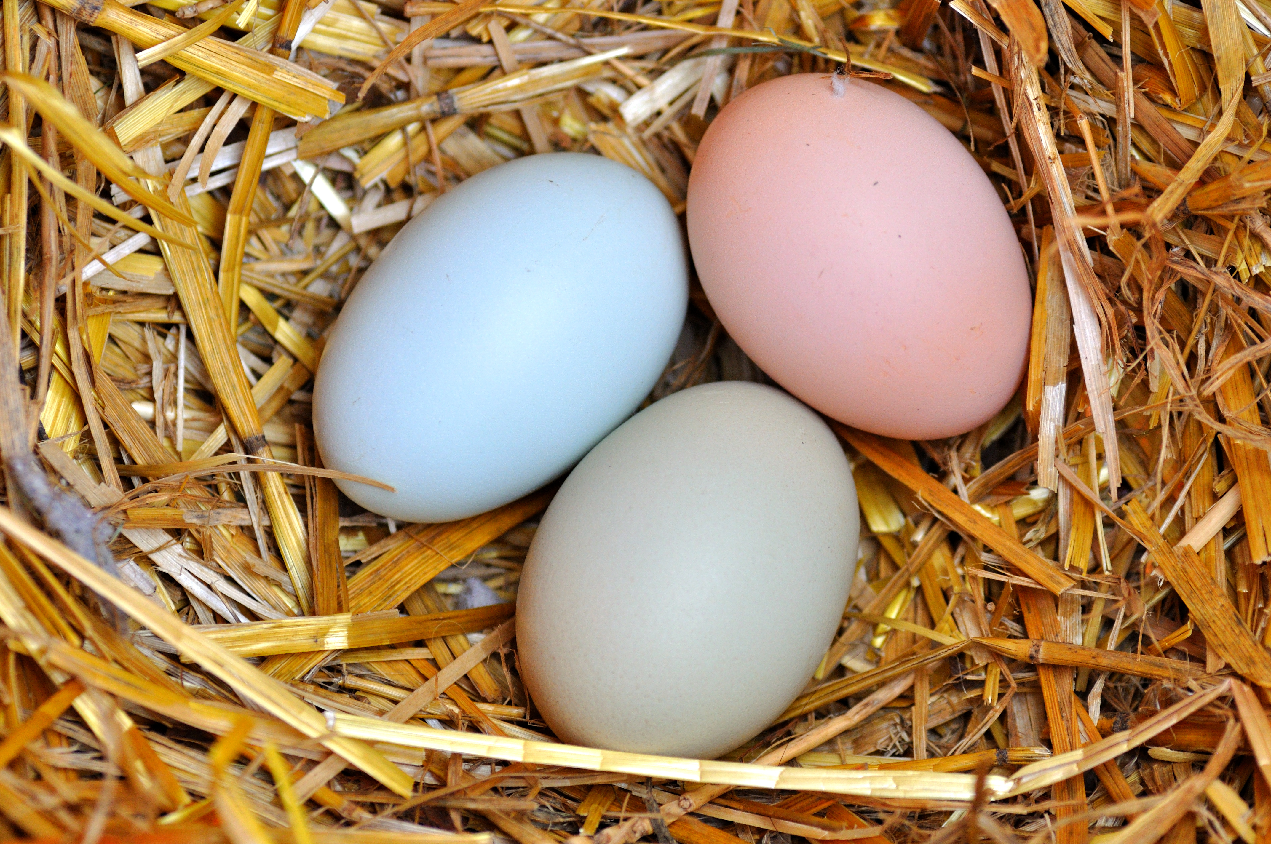 Chicken eggs, including from "easter egger" hens able to naturally lay green and blue eggs.